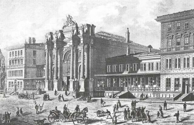 No more existing Prague-Těšnov train station, Czechia.